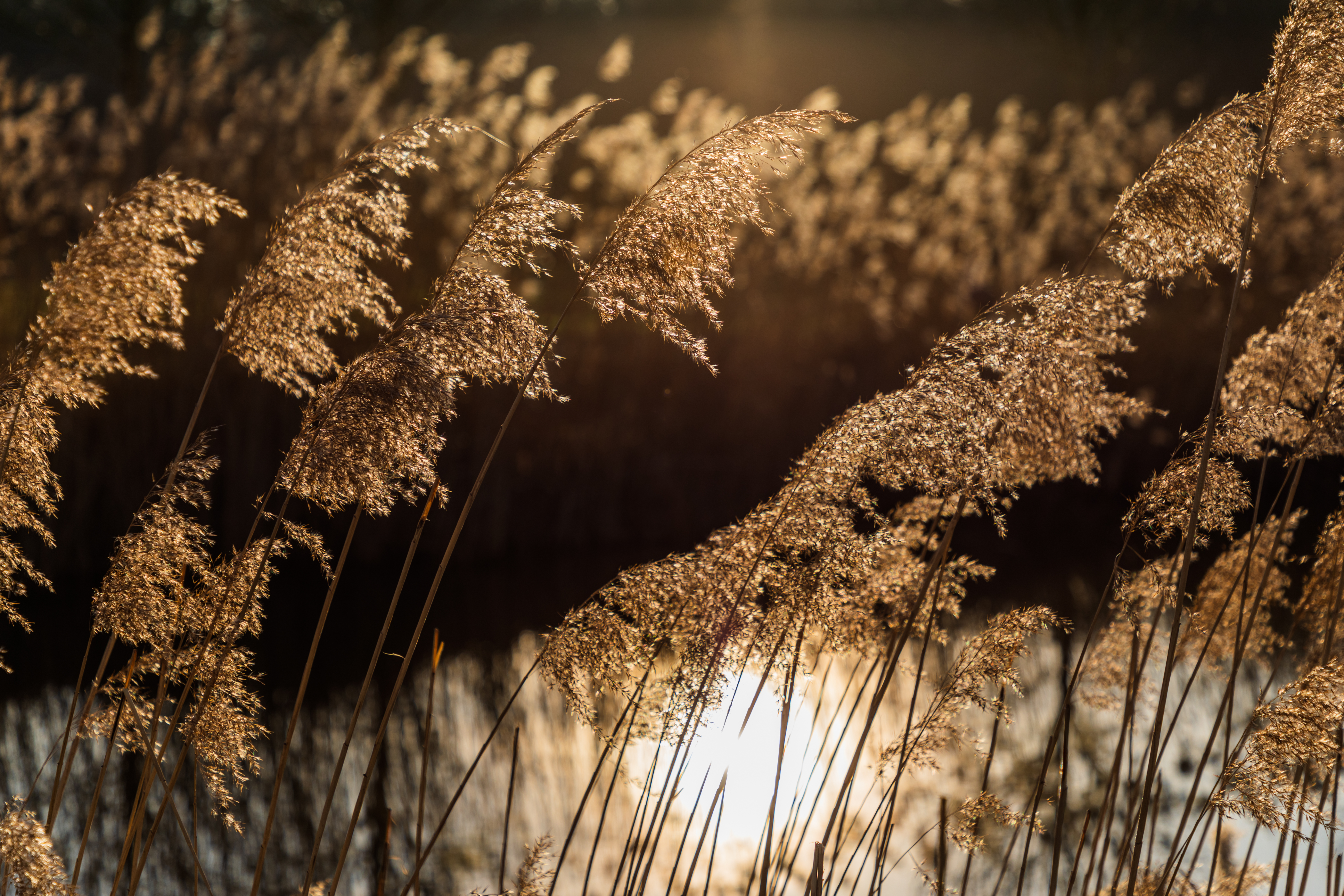 Common reed at the stream “Heubach” in Hausdülmen, Dülmen, North Rhine-Westphalia, Germany